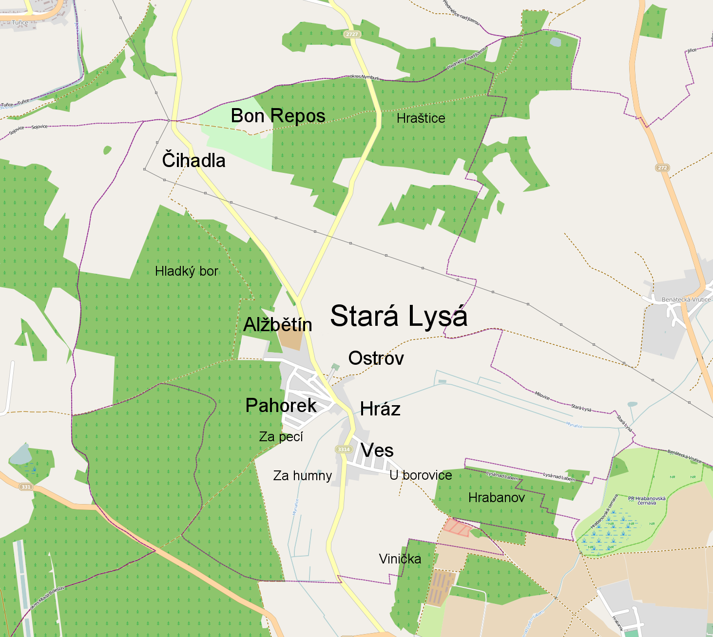 Stará Lysá, mapa katastrálního území This map of Stará Lysá was created from OpenStreetMap project data, collected by the community. This map may be incomplete, and may contain errors. Don't rely solely on it for navigation.